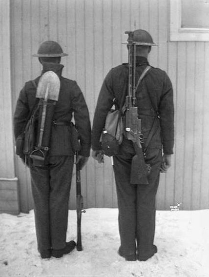 Norwegian Army soldiers on winter exercise photographed from behind.